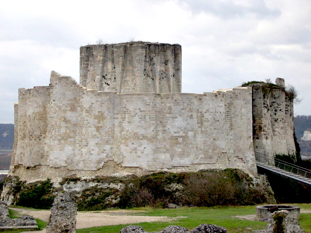 The donjon of Château-Gaillard, Eure, Normandy.